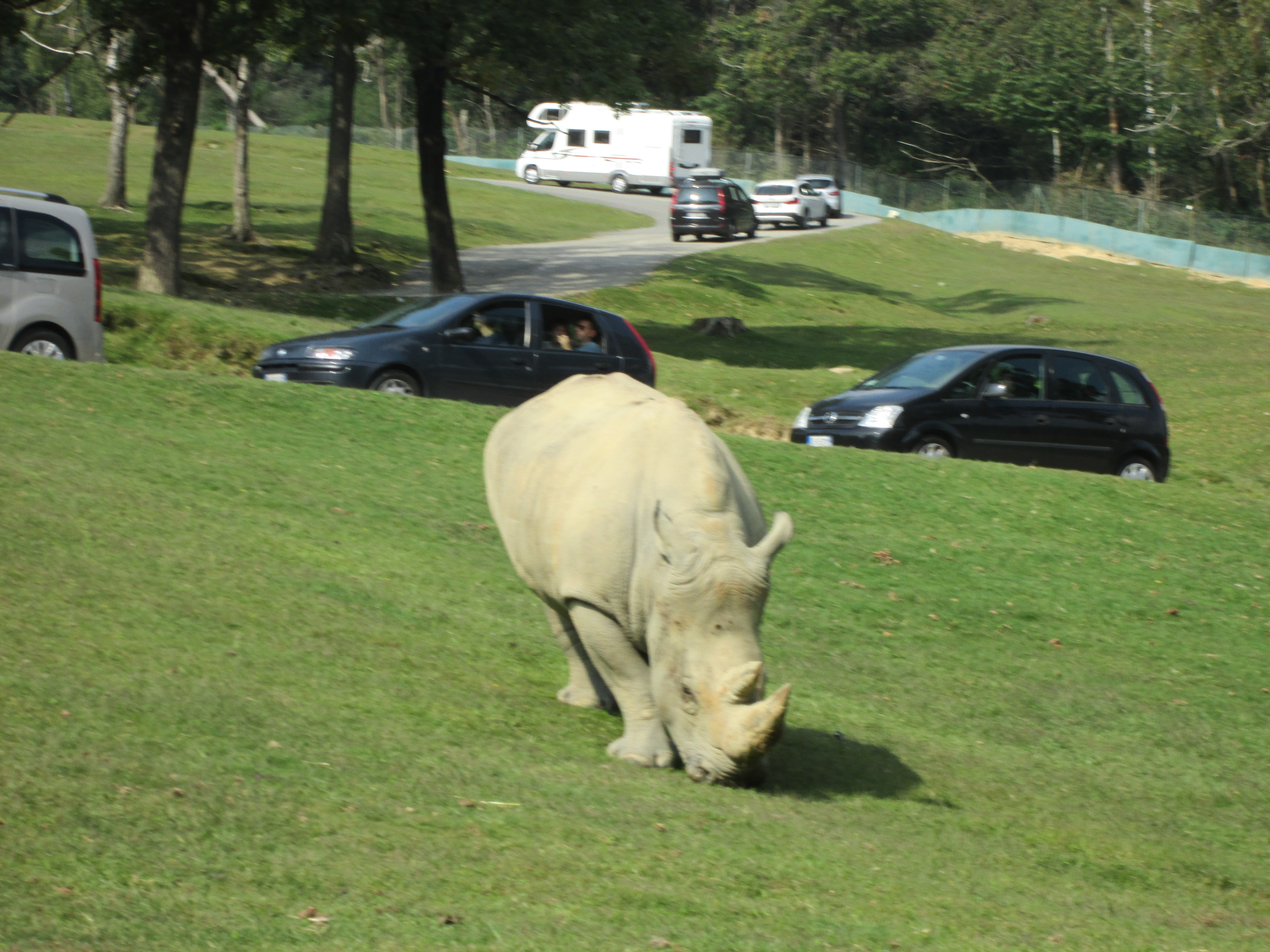 Ceratotherium simum at Pombia Safari Park ITALY